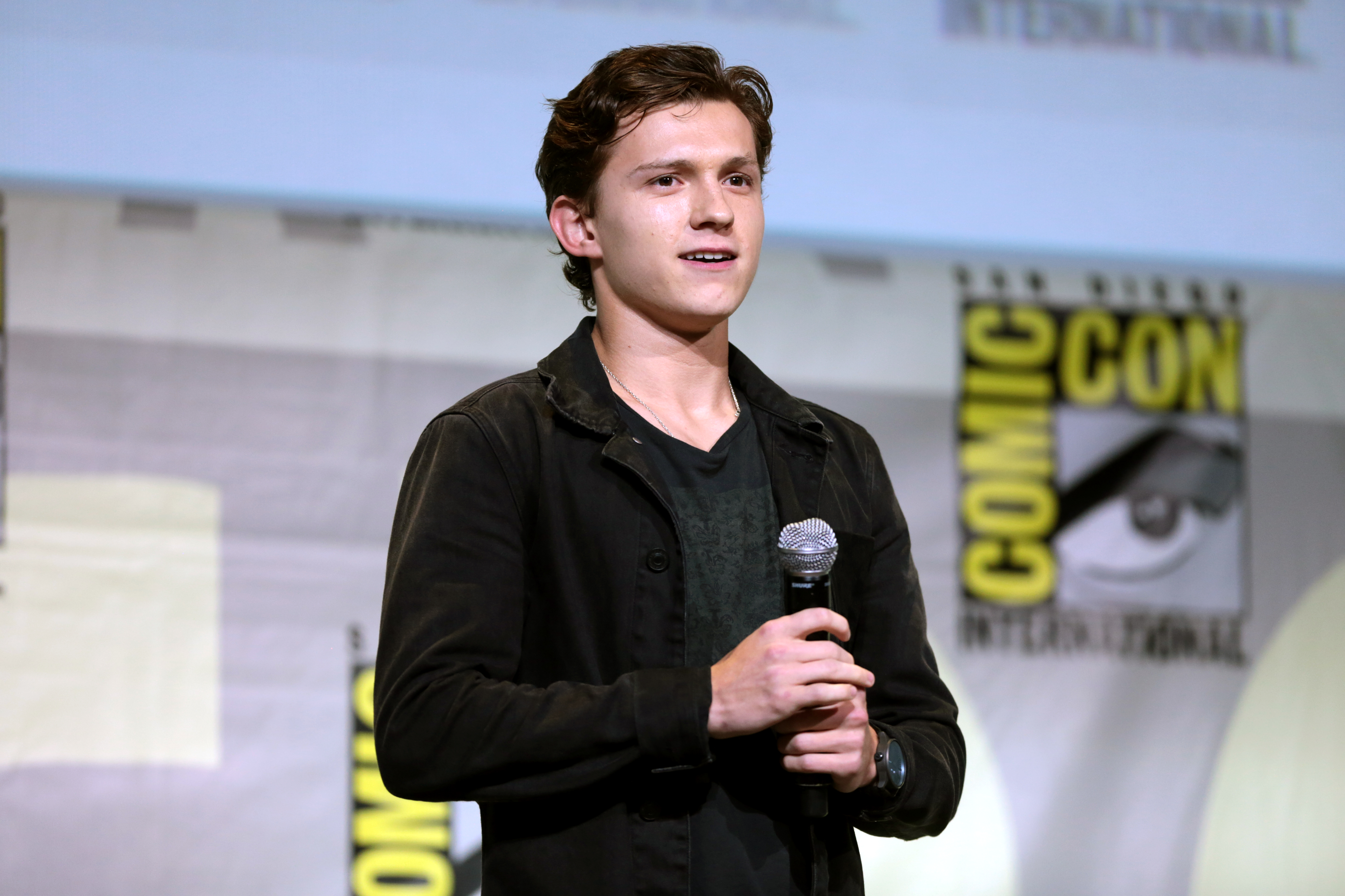 Tom Holland speaking at the 2016 San Diego Comic Con International, for "Spider-Man: Homecoming", at the San Diego Convention Center in San Diego, California.